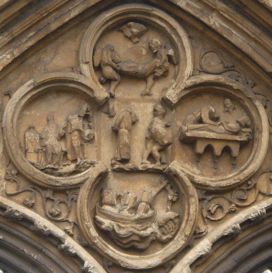 The quatrefoil above the West Door of the Croyland Abbey shows in relief scenes from the life of Saint Guthlac. The sculpture dates from the middle years of the XIIIth century.